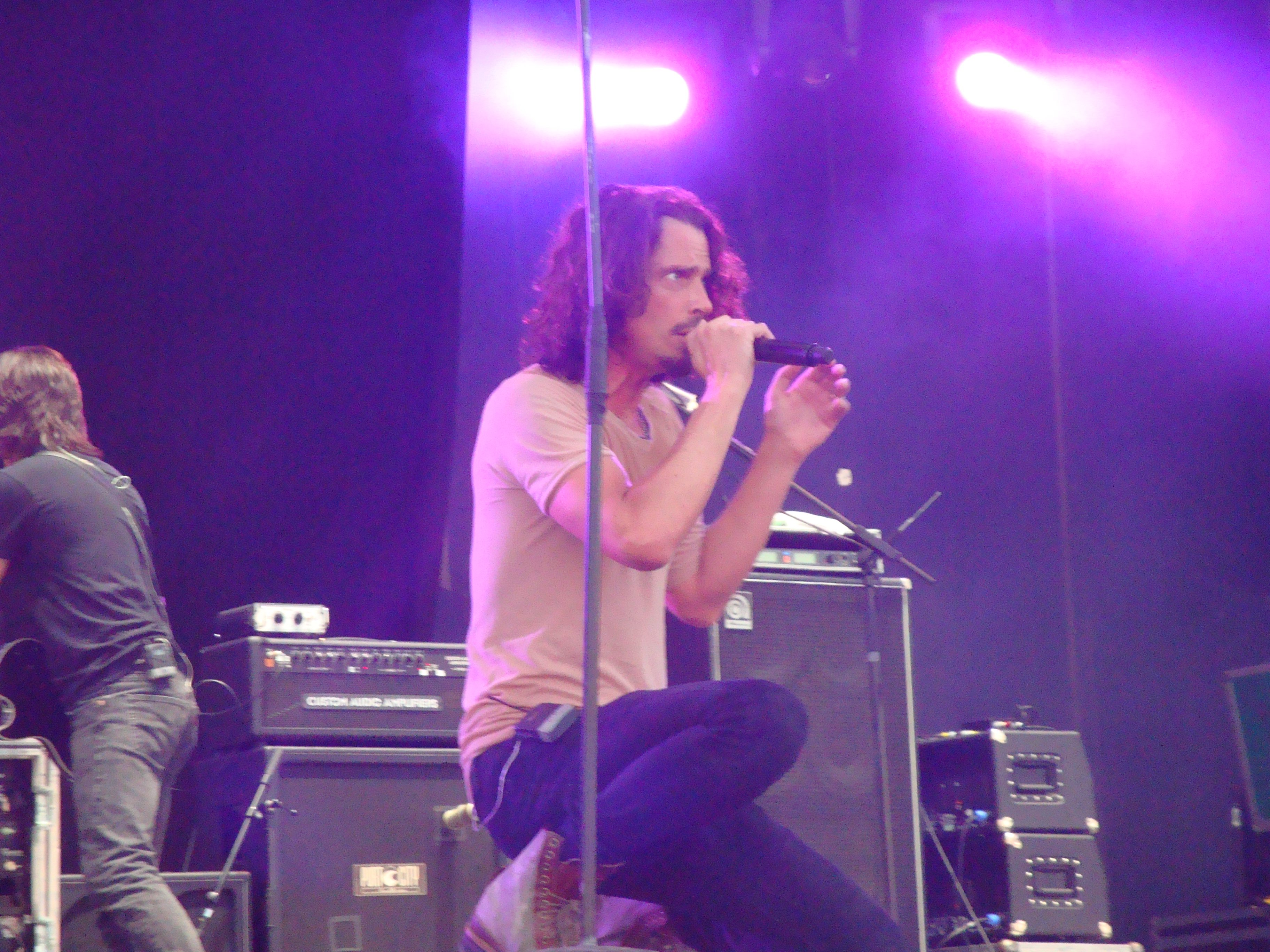 Chris Cornell - in Lisbon - Optimus Alive09